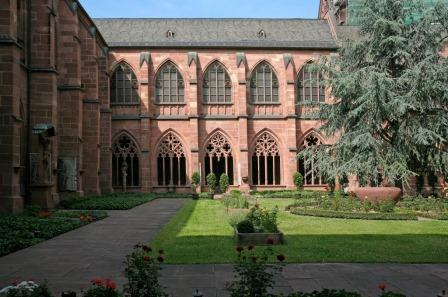 Cloister of the Mainz Cathedral